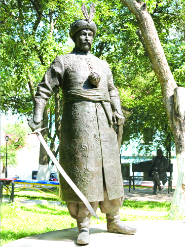 The monument is erected in Kiev (Garden of Ukraine), year 2003. The monument is 2 meters high. Material: bronze. The authors are Boris Krylov and Oles Sidoruk.